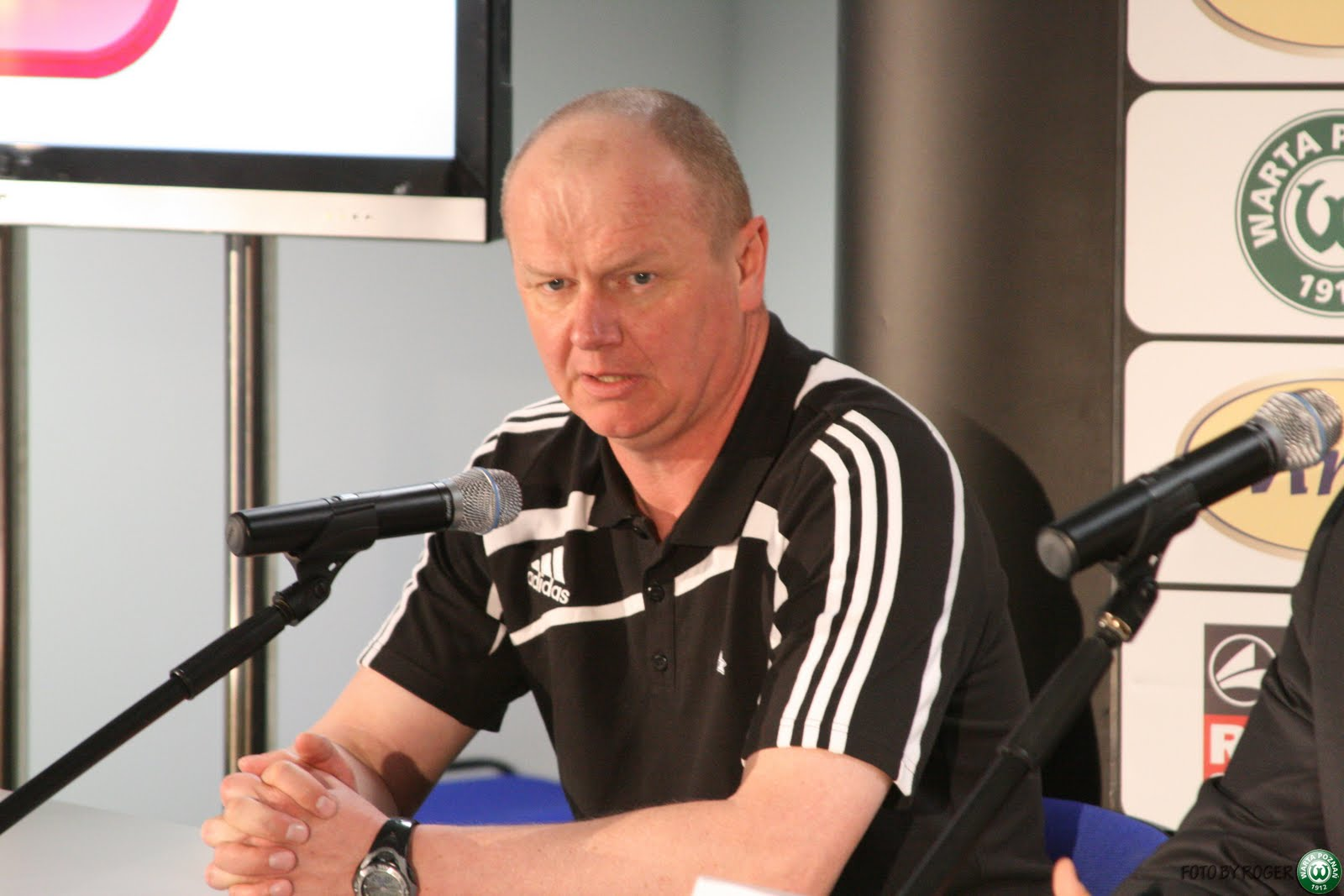 Former Polish football player and coach - Robert Kasperczyk